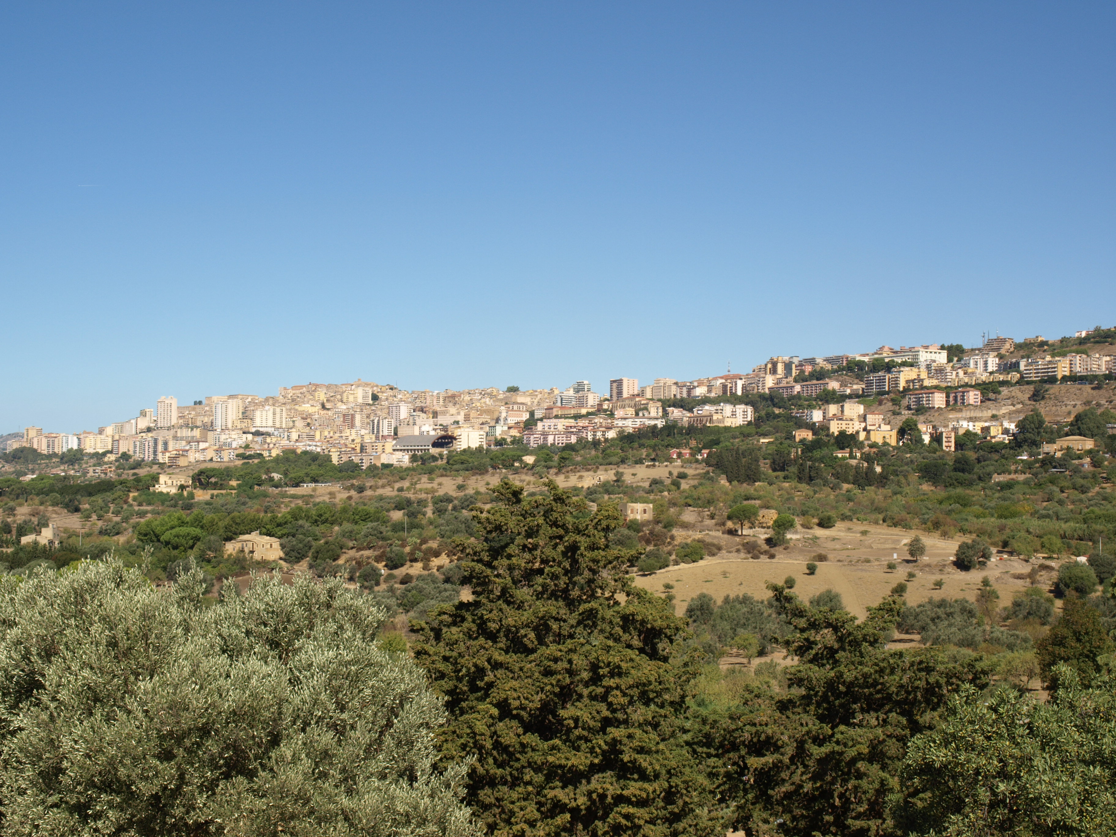 Agrigento as seen from the Temple of Hera/Juno in the Valley of the Temples.